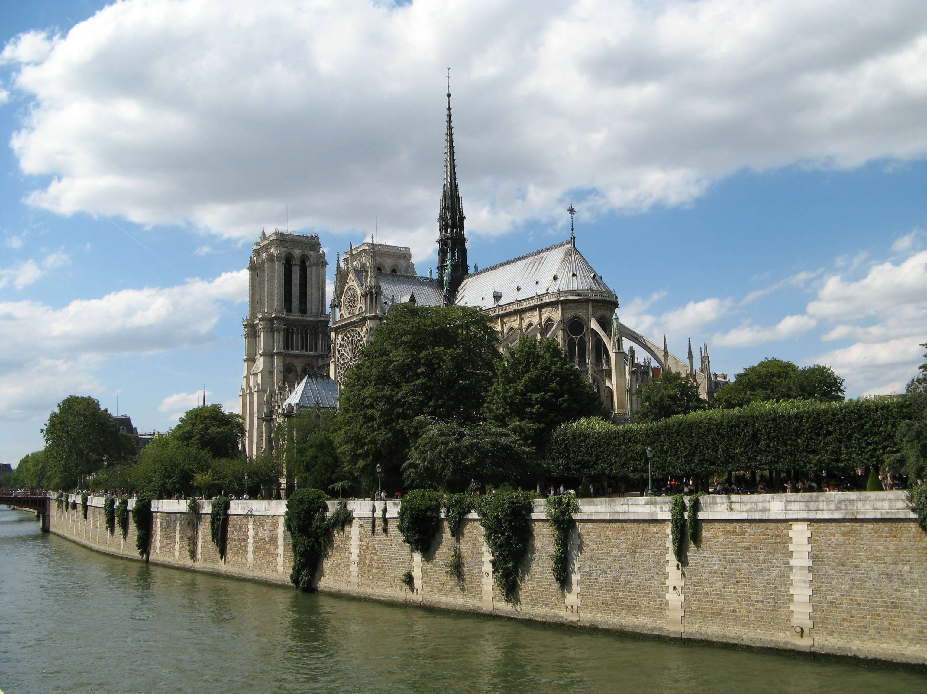 Cathedral of Notre Dame in Paris seen from southeast